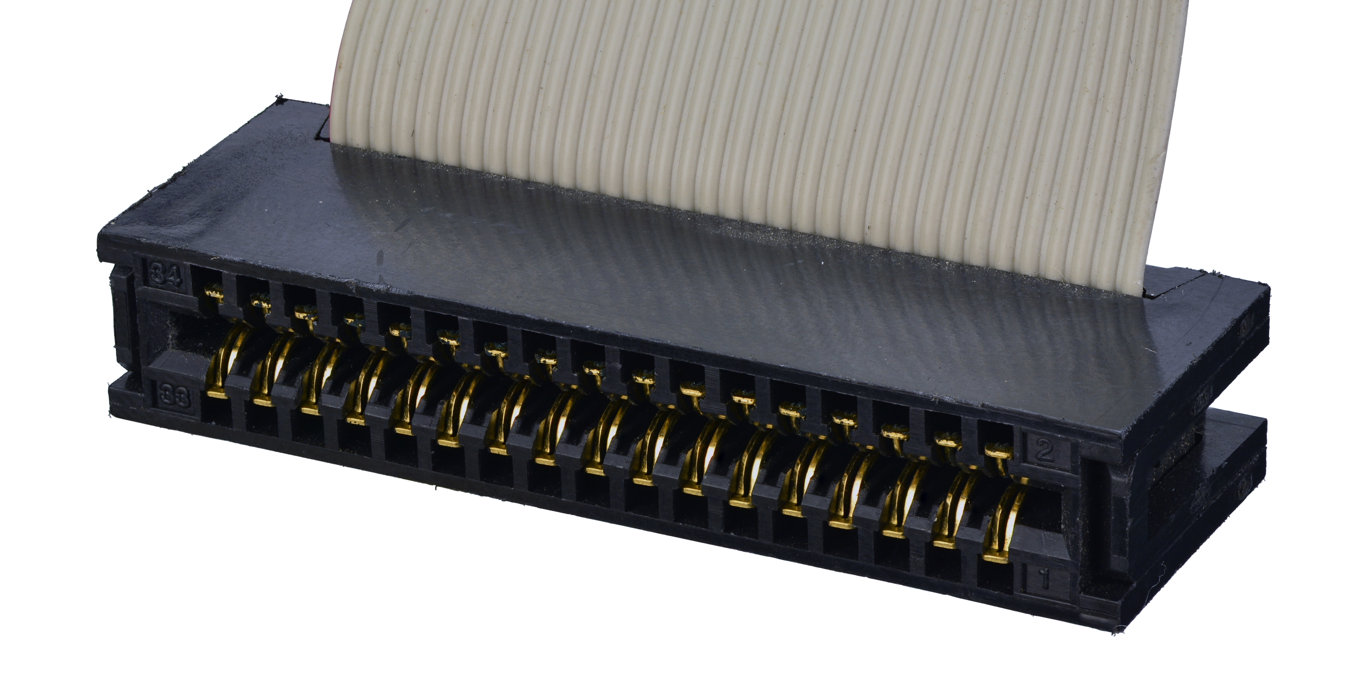 A ST506/ST412 HDD Control connector, showing the pins. This cable came from the Tower AT System 220 personal computer by Schneider Computer Division released in 1988.